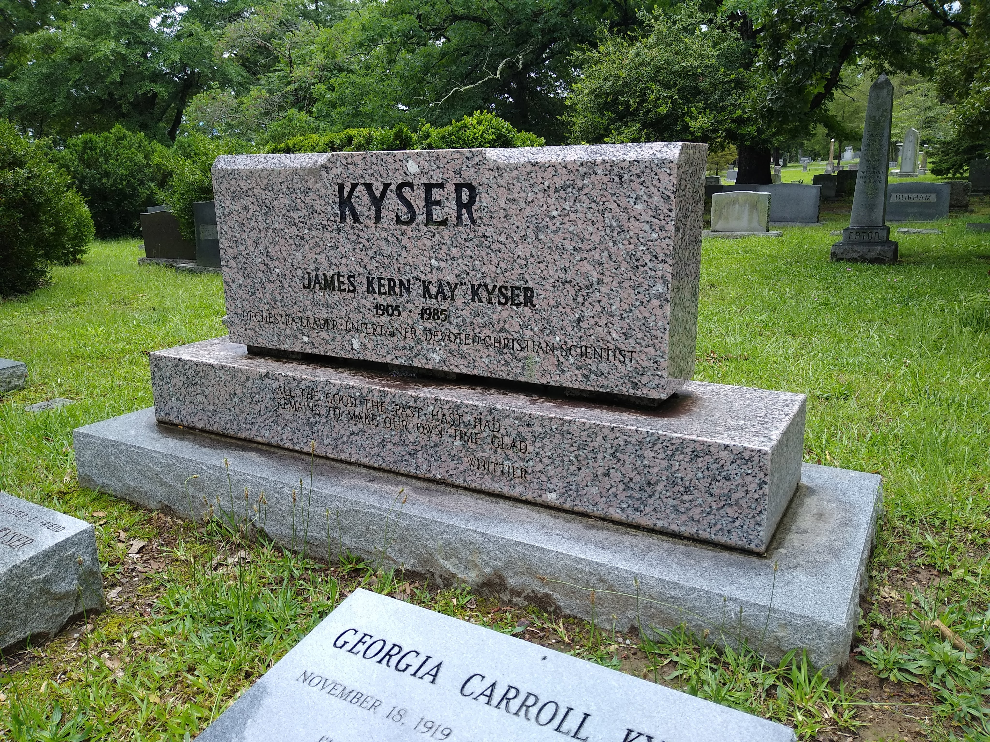 Grave of James Kern "Kay" Kyser at the Old Chapel Hill Cemetery in Chapel Hill, North Carolina.